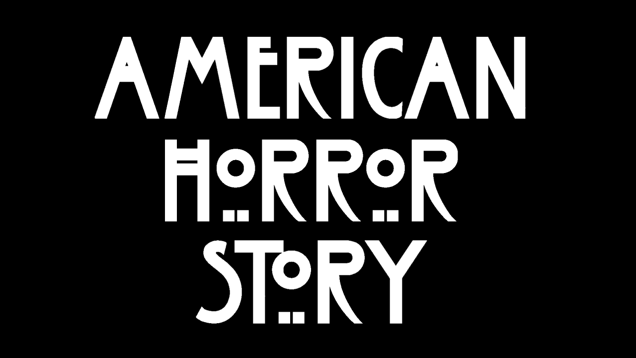 Logo present in every episode title screen of the series American Horror Story